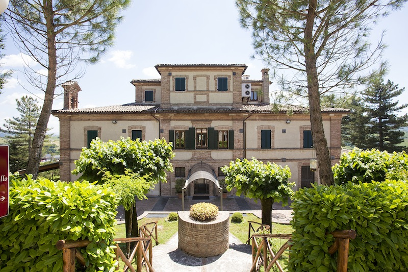 Villa Marchesa del Grillo. North Entry. Fabriano, Le Marche, Italy.